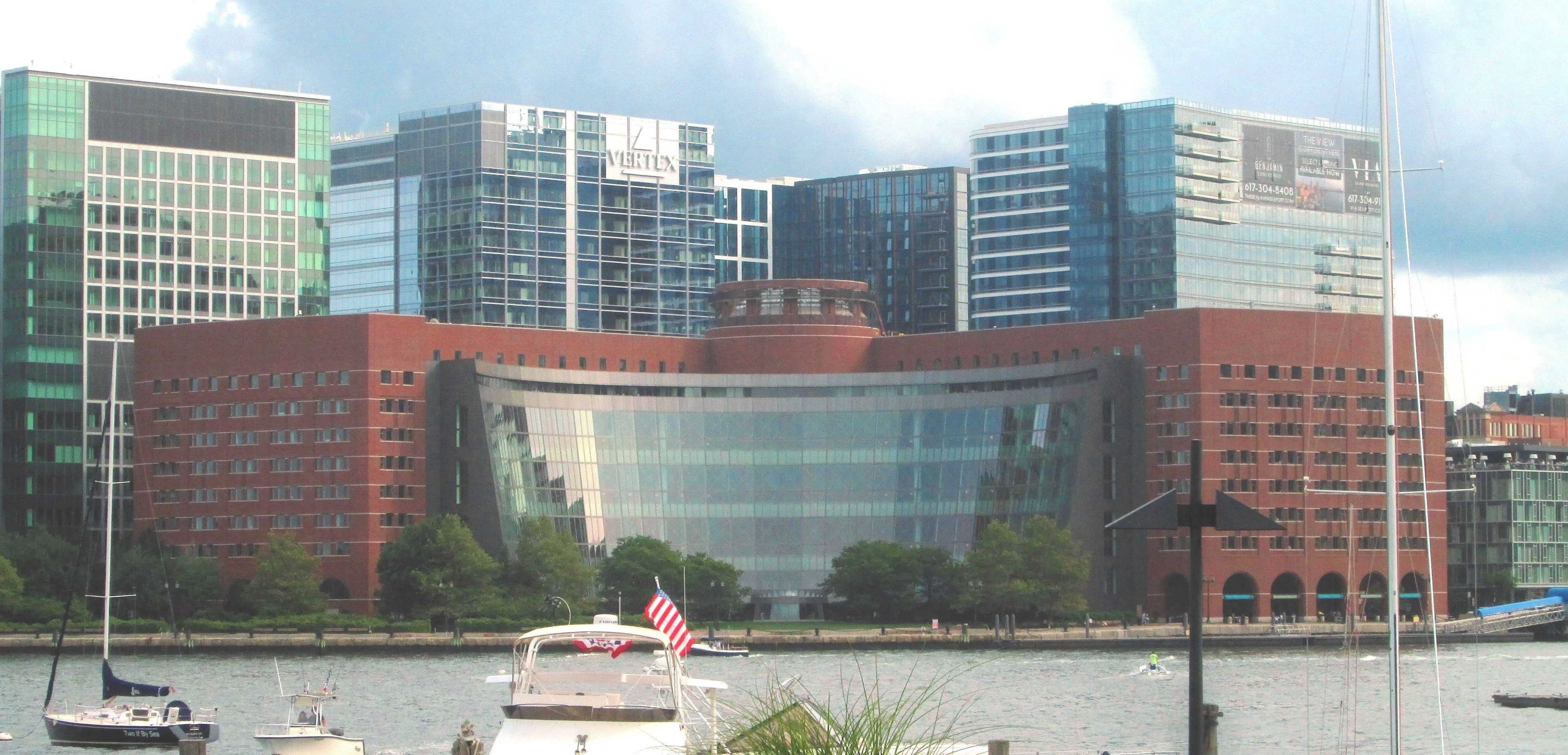 The John Joseph Moakley United States Courthouse located at 1 Courthouse Way on Fan Pier in Boston, Massachusetts, was completed in 1999, and was designed by Henry N. Cobb and Ian Bader of Pei Cobb Freed & Partners. It was named after Congressman Joe Moakley.